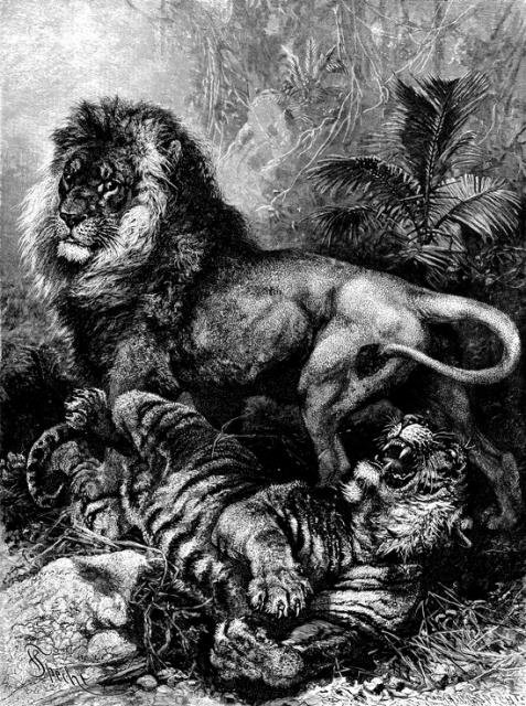 (Removed after reusableart request.)